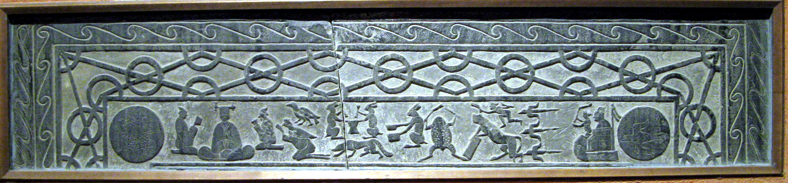 The Queen Mother Of The West And The King Father Of The East. Eastern Han Dynasty Beilin Museum, Xi'an This Han Dynasty tomb relief provides a fascinating glimpse into the early, pre-Daoist, myths and legends of ancient China. A sun circle appears on the right, with a symbolic flying crow inside the medallion. In front of the sun medallion, the King Father of the East, Dongwangfu, sits upon his throne, a sun chariot, driven by a kneeling charioteer who holds the reins of three crows. The movement throughout is from east to west, consistent with the natural motion of the sun from dawn to dusk. In front of the sunbirds, a human-like figure flies or races above a tiger. Next is seen a frog, symbol of the moon; the hare, another moon-symbol; and then a pair of moon-hares, who pound out the elixir of immortality in a crucible, above a fox. On the left, the seated Queen Mother of the West, Xiwangmu, is adored by birds, including a three-legged crow, and officials. To her left is a moon circle in which are inscribed a symbolic deer and frog. The resident goddess of Mount Kunlun, Xiwangmu was later promoted to a major role in the pantheon of Daoist Immortals.